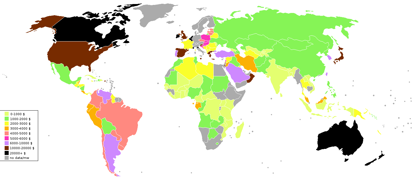 Schematic of the minimum wages by country. It was made using the data in the the table at Lower wages are an important paramater for companies to move their production elsewhere. Such production moves often result in an increased negative impact of that company on the environment, and often involve worsened labour conditions of the workers (the work conditions in cheaper/less regulated countries are often worse than those in more expensive/more regulated countries). Other important factors for companies to move their production are ease of distribution/transport of their product within the country, taxes, ... As can be seen in the schematic, there are fairly great differences in regards to the minimum wage depending on the country, meaning that moving production to another country is a tactic frequently employed in practice by companies. One way to counter this would be to level the wages internationally to only one wage. This wage probably needs to be on the high to medium price range so as to make it economically unattractive for companies based in countries with high wages to move their production abroad.